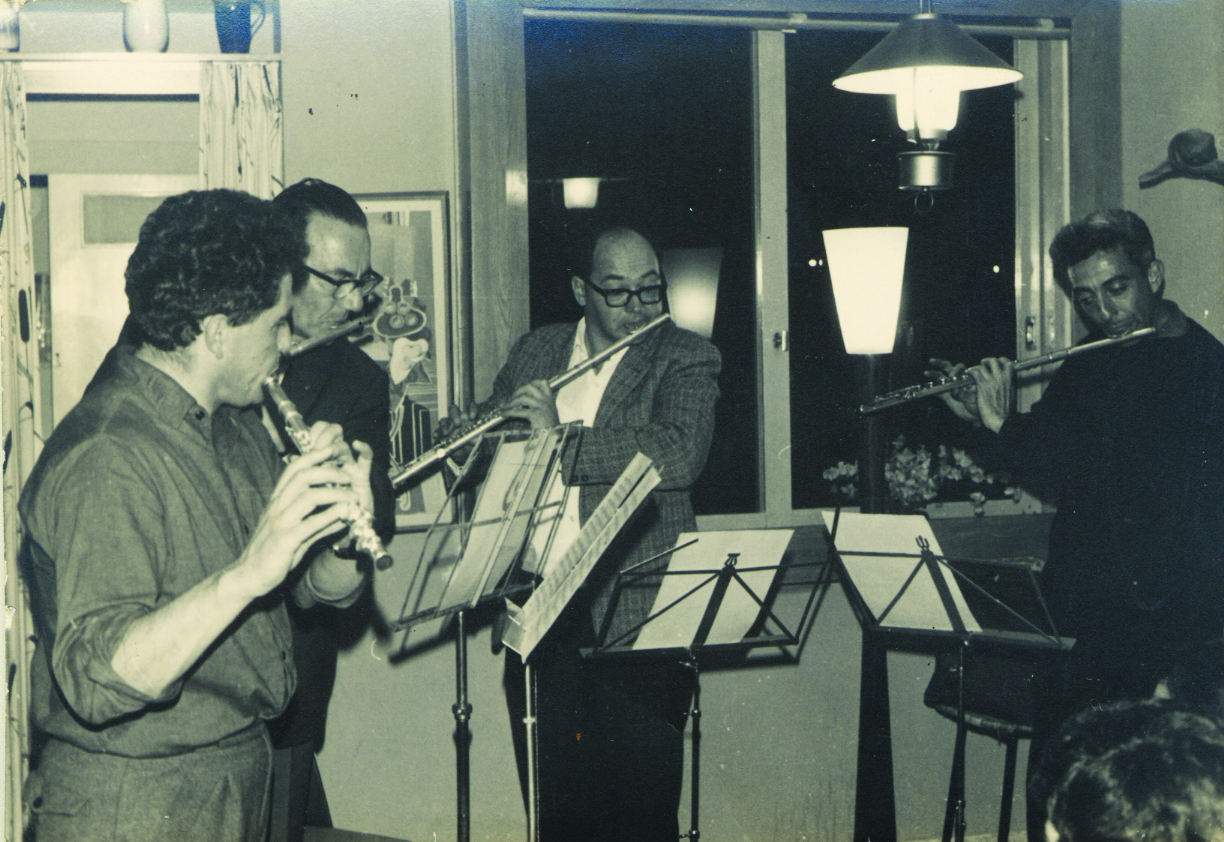 Art of Israel : Jerusalem